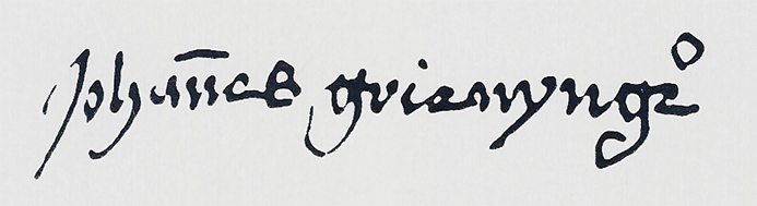 Unterschrift Hans Grüningers unter einem Brief von 1524 an den Nürnberger Drucker Hans Koberger